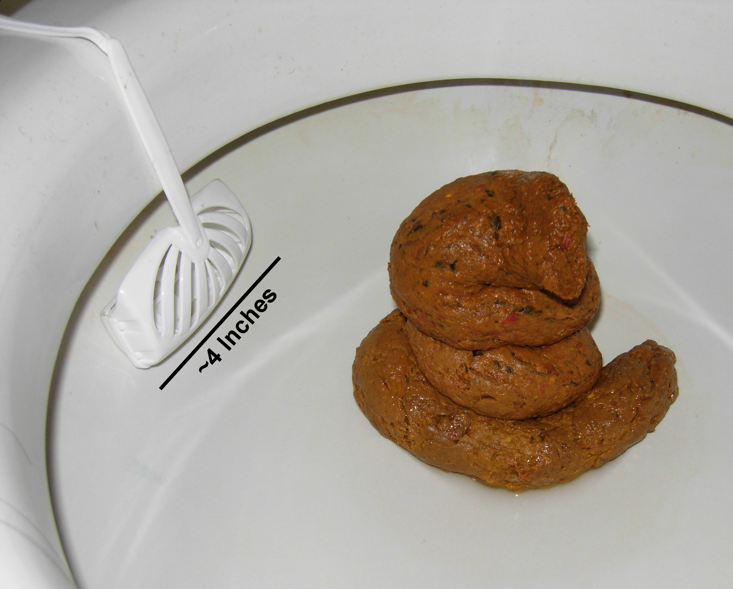 ملخص Produced by myself on 2006-05-28. Photographed by myself, in a toilet, shortly thereafter. Yes, this is real. It is what it is. If you use this image, I would appreciate a credit. Cacetudo 19:24, 29 May 2006 (UTC)